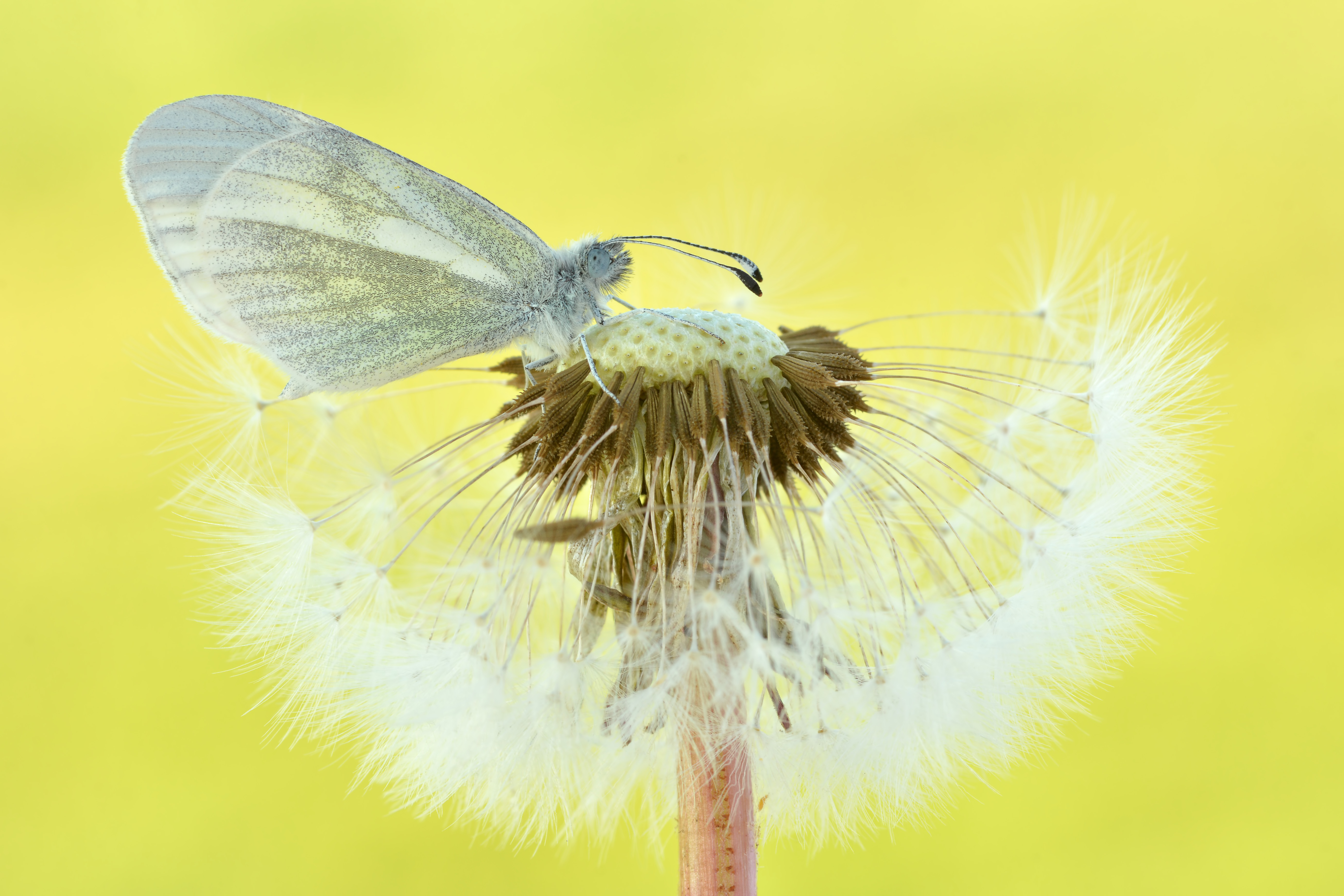 Leptidea sinapis on a Cichorieae seedhead. Biosphärenreservat Elbe-Brandenburg, Rühstädt, Brandenburg, Germany.